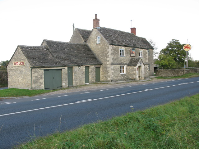 The Red Lion in 2009. We visited this little pub many years ago and then forgot where it was, we found it again by accident the other day. It has been the subject of two earlier geographs 22388 and 286496 but it is good to see it is still a pub.